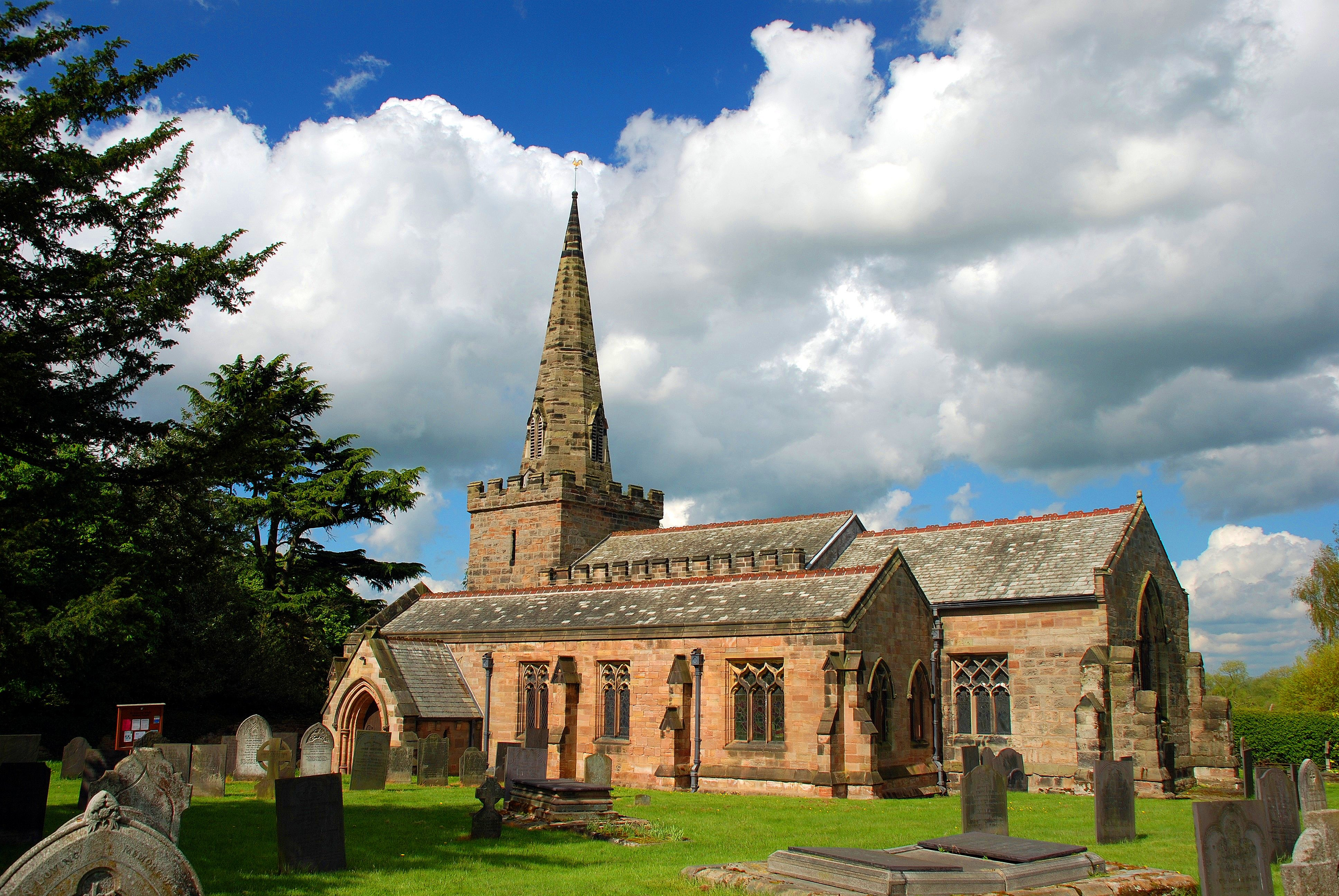 Church Of St Mary The Virgin Wikidata has entry Q17546575 with data related to this item.